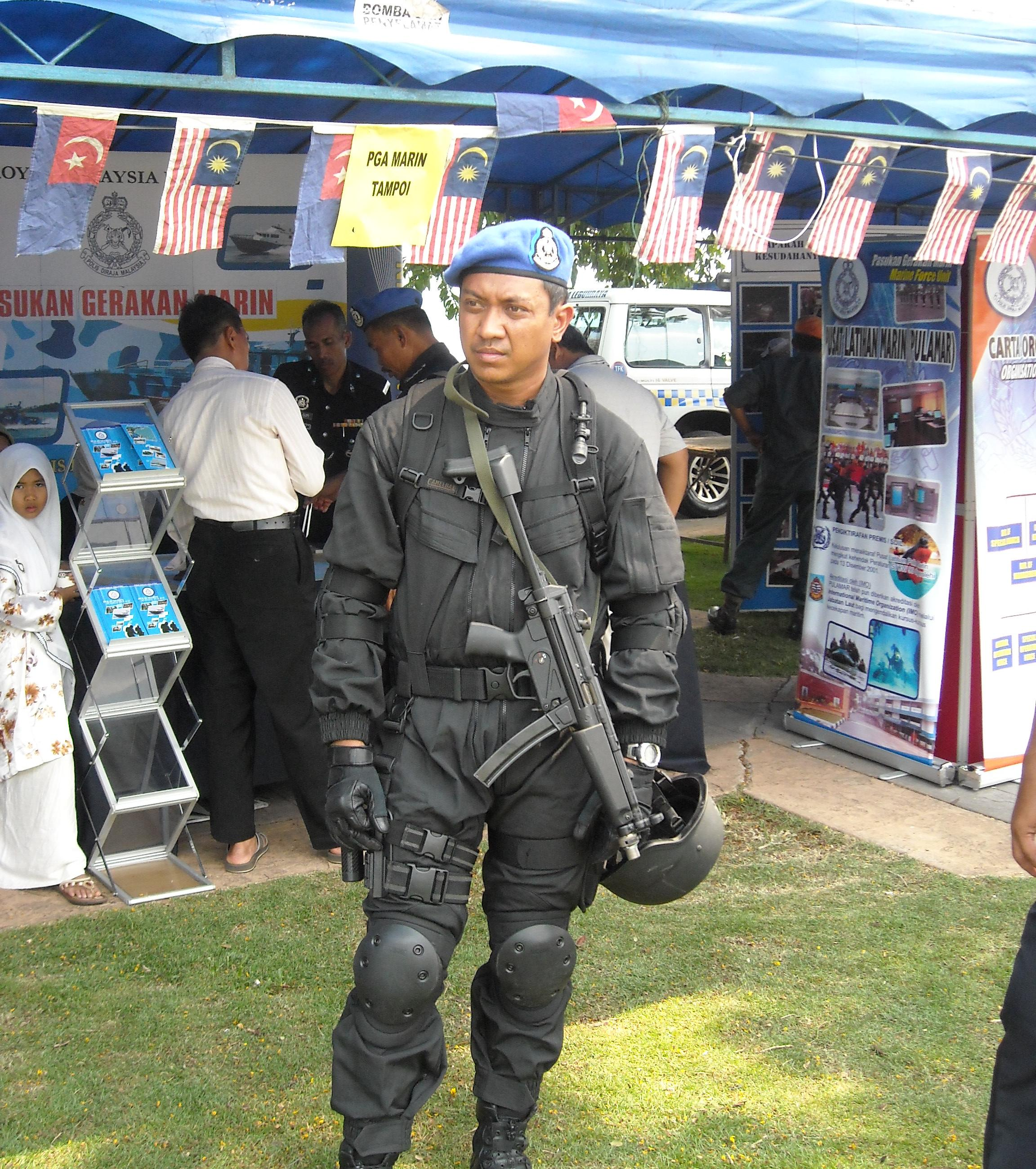 Officer from the UNGERIN, Royal Malaysian Police, on patrol at Taman Emas, Muar City during a exhibitions for the Community Policing. He belongs to the earlier batches of high-visible patrols by the UNGERIN, and dons the new sky blue beret together with the Nomex combat uniform.